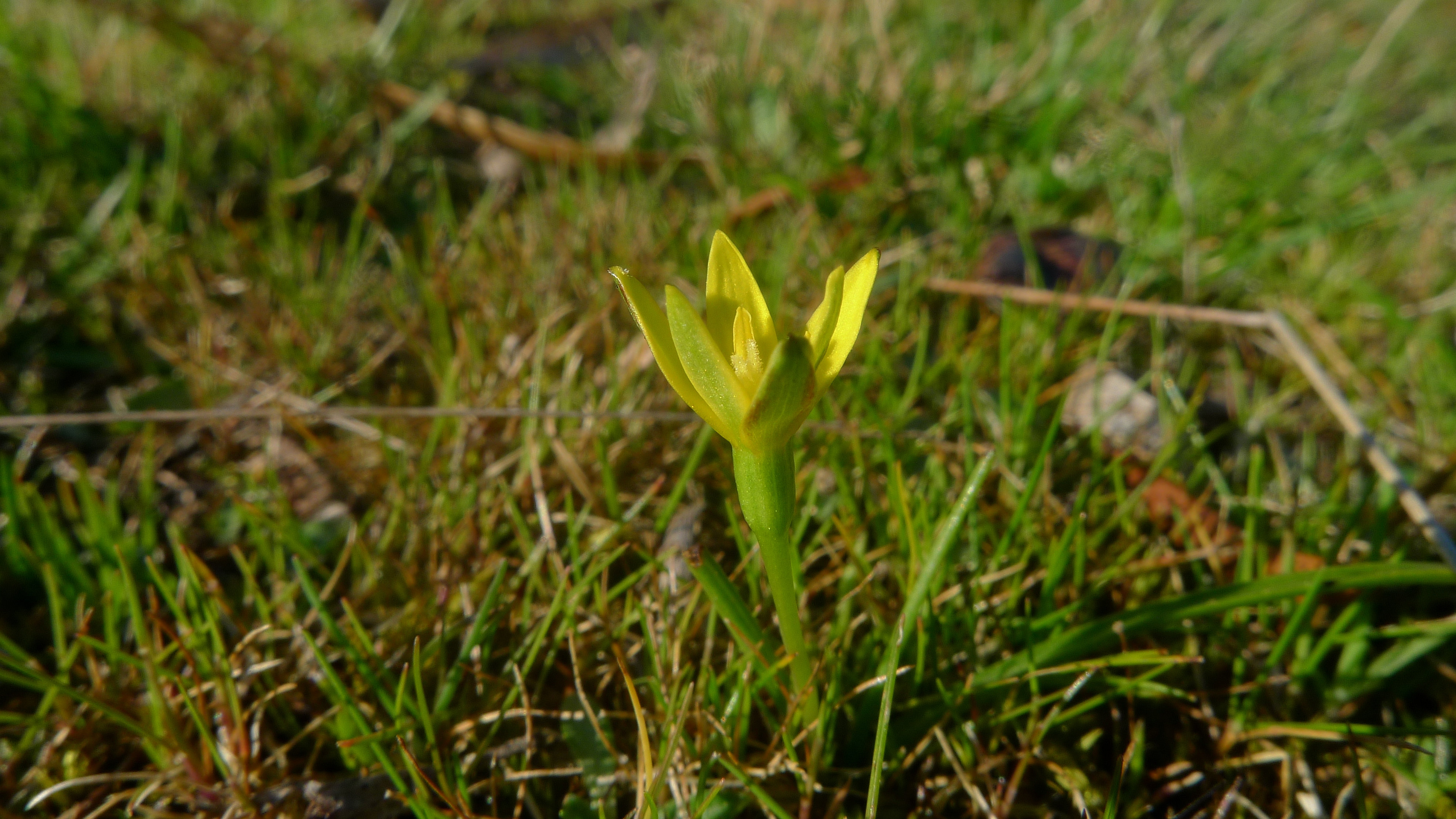 Tiny yellow flowers popping up in the grass. Yellow Star, Hypoxis vaginata. Trevallyn Nature Recreation Area, Launceston Tasmania Australia, October 2011.